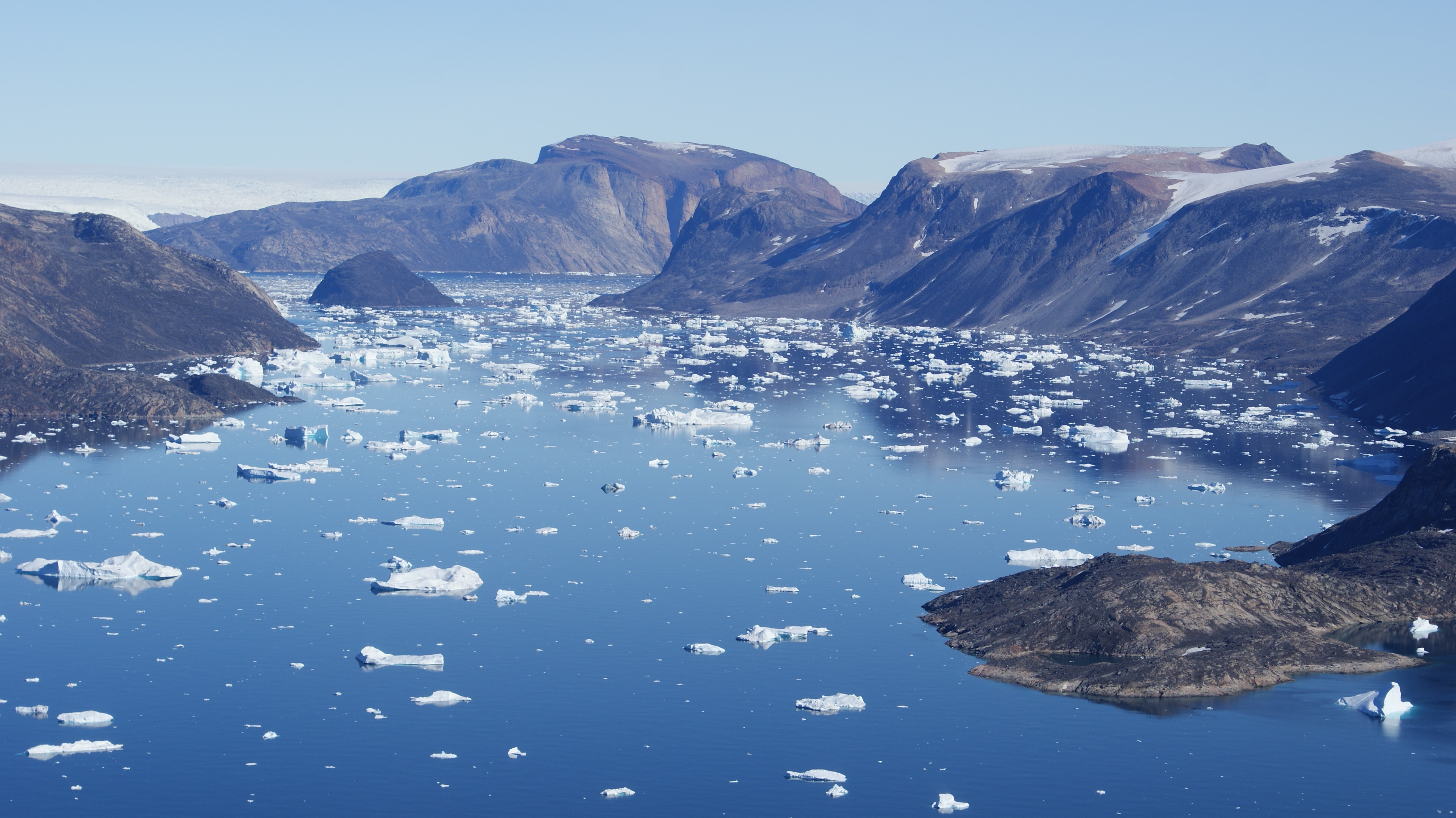 Aerial view of the confluence of Alison Bay and Melville Bay, Upernavik Archipelago, Greenland. Photographed from the Air Greenland Bell 212 during the Kullorsuaq-Nuussuaq flight. Left to right: Saqqarlersuaq Island, Sermersuaq (Greenland Icesheet, behind), Saqqarlersuup Sullua strait (front), tiny Uummannaarsukassak Island, Alison Bay (behind), Wandel Land nunataq (farther behind), Kiatassuaq Island.